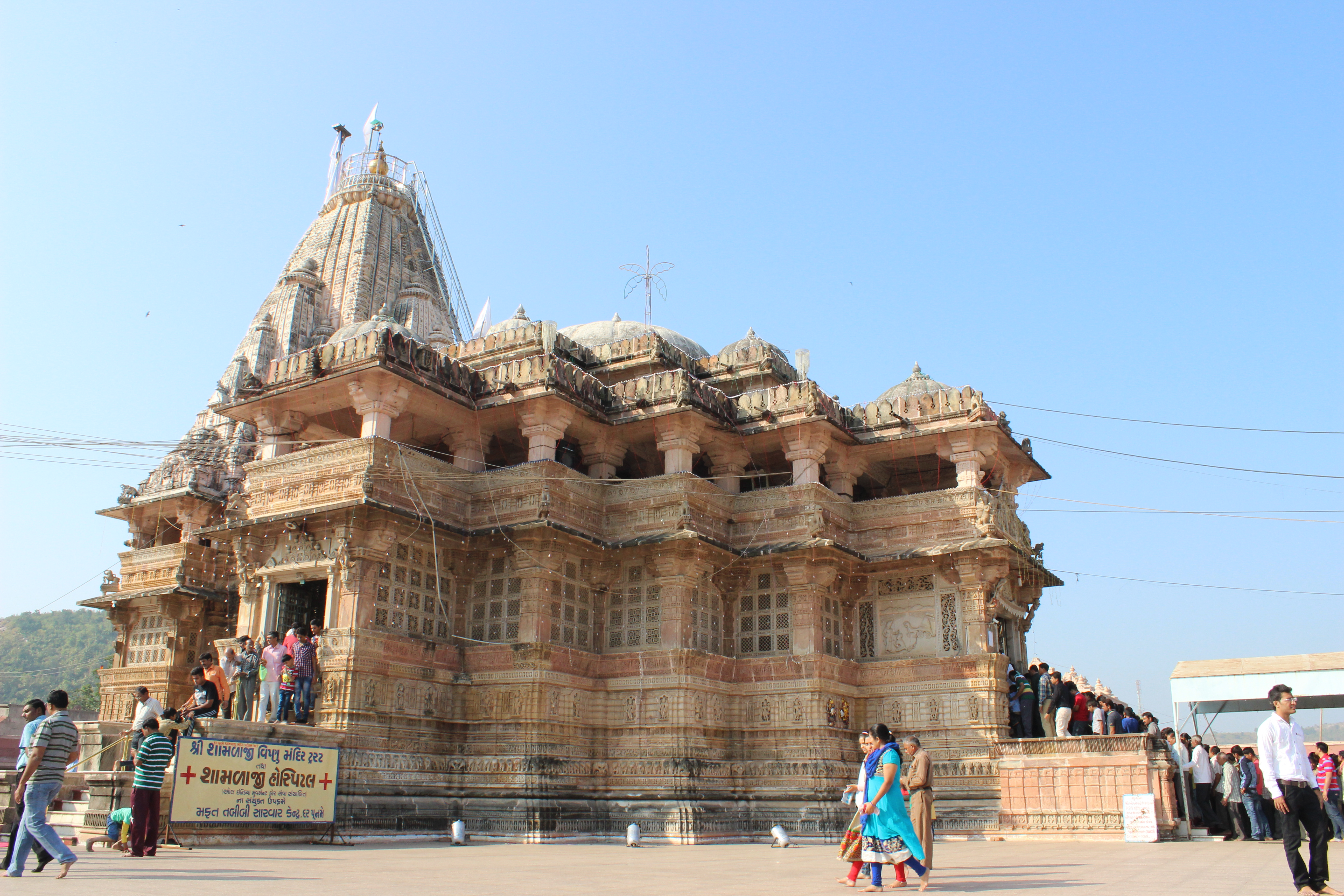 Shamlaji Temple, Aravali ગુજરાતી: શામળાજીનું મંદિર